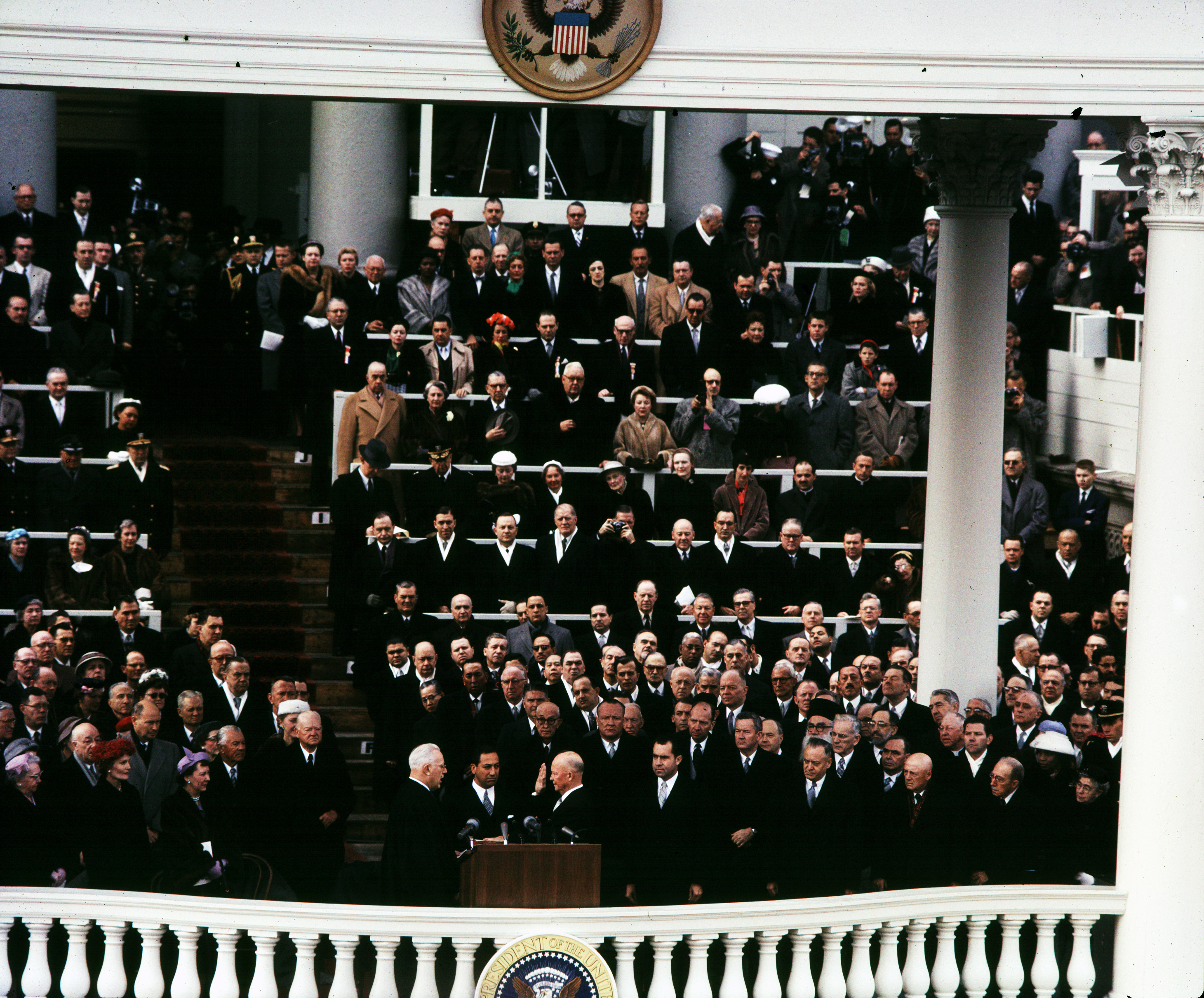 Chief Justice Earl Warren administering the oath of office to Dwight D. Eisenhower on the east portico of the U.S. Capitol